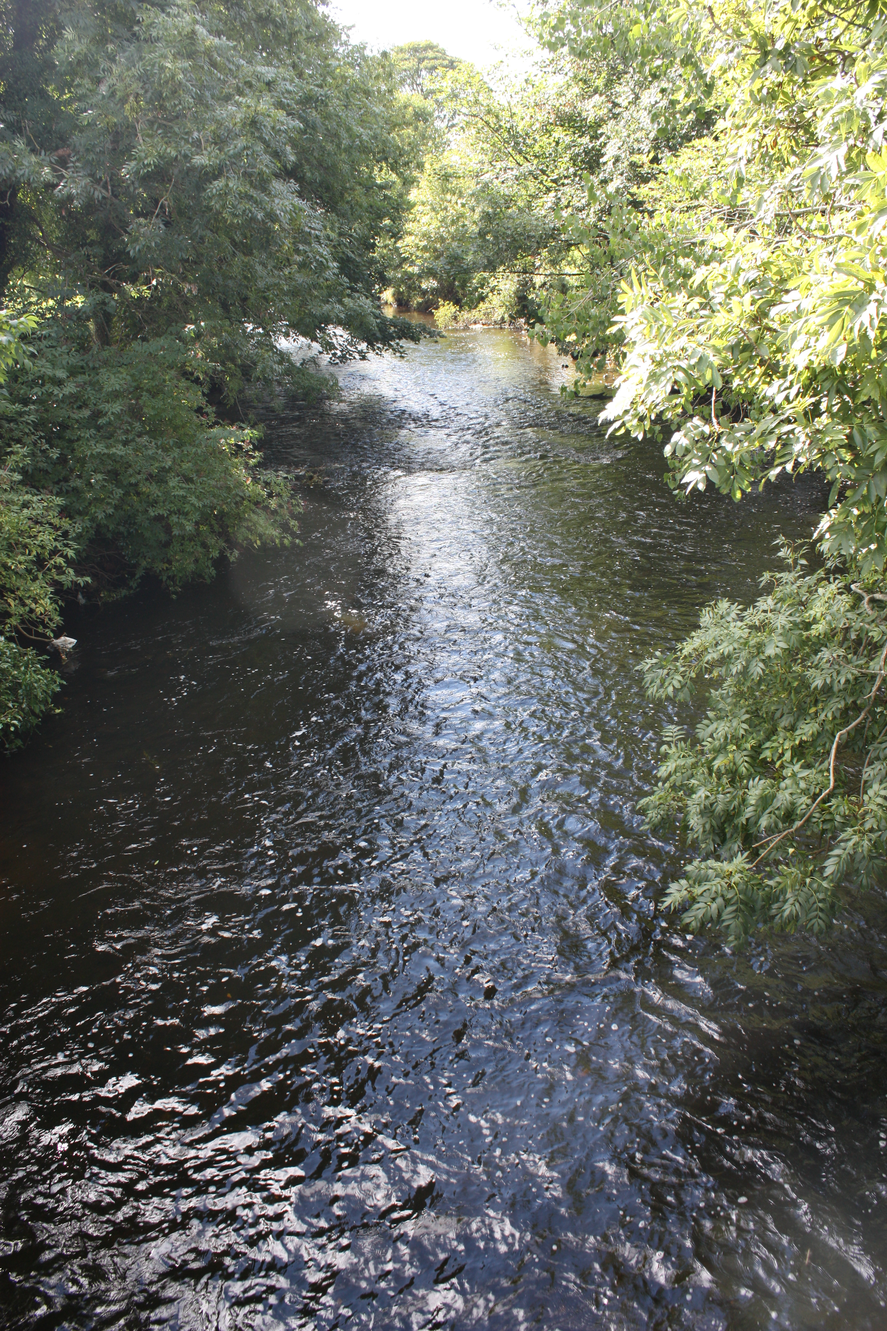 Annacloy River, Annacloy, County Down, Northern Ireland, September 2010 (flows under the Annacloy Road)